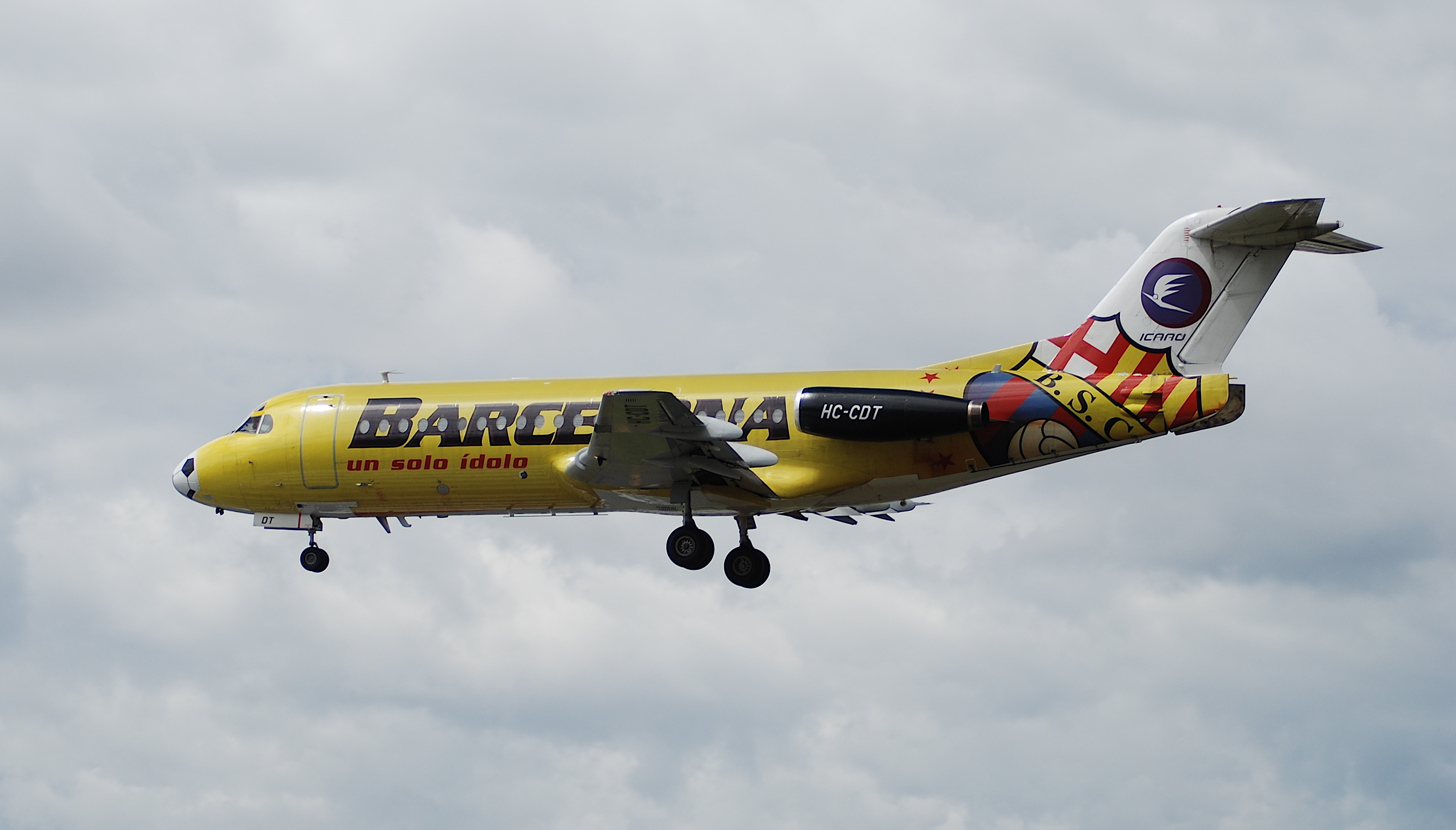 This lovely and specially colored Fokker F28 Fellowship suffered a landing accident at Quito UIO on September 22, 2008. The twinjet was damaged beyond repair.